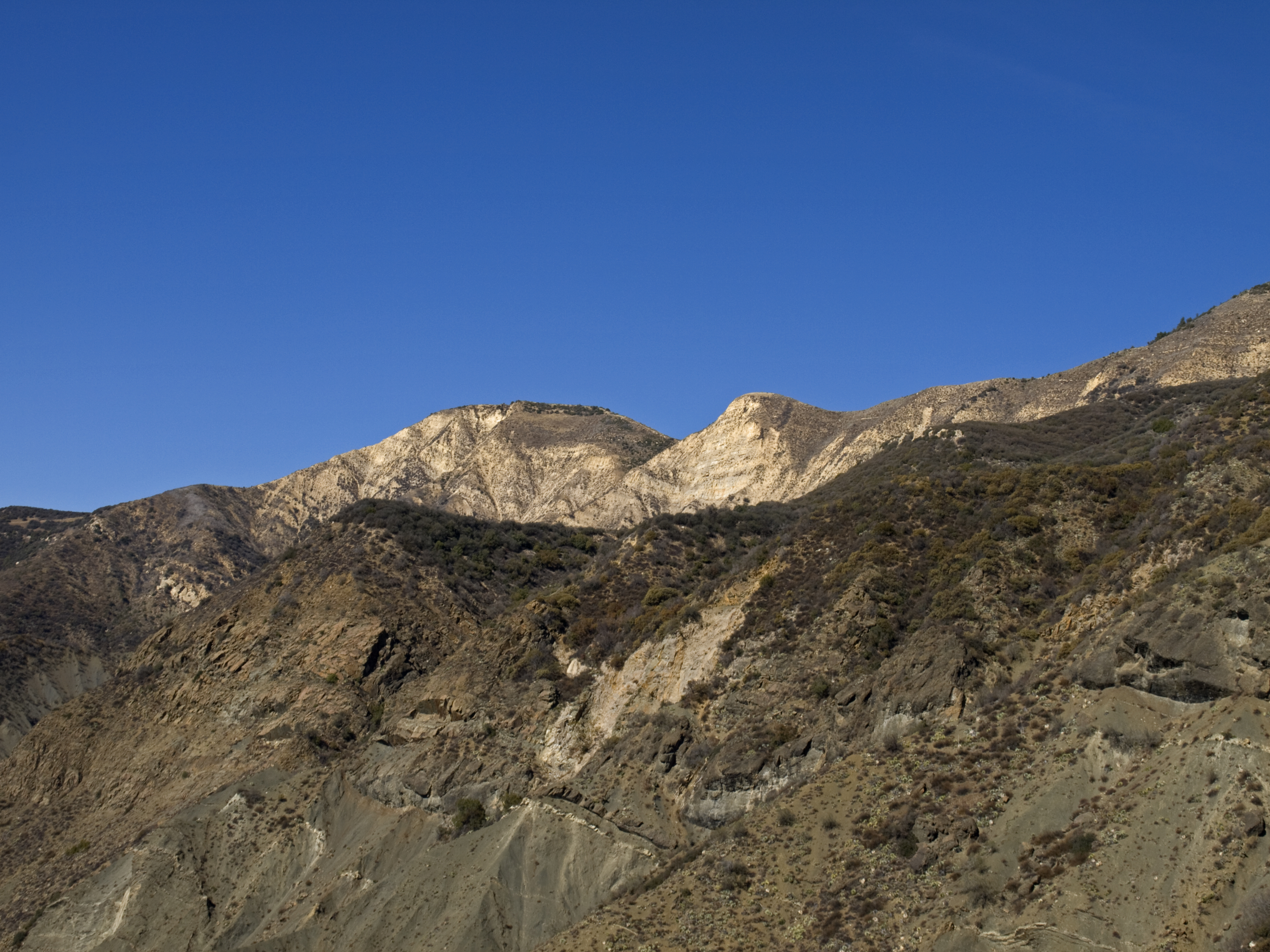 A stretch between Alexander Peak and Little Pine Mountain, the southern slope